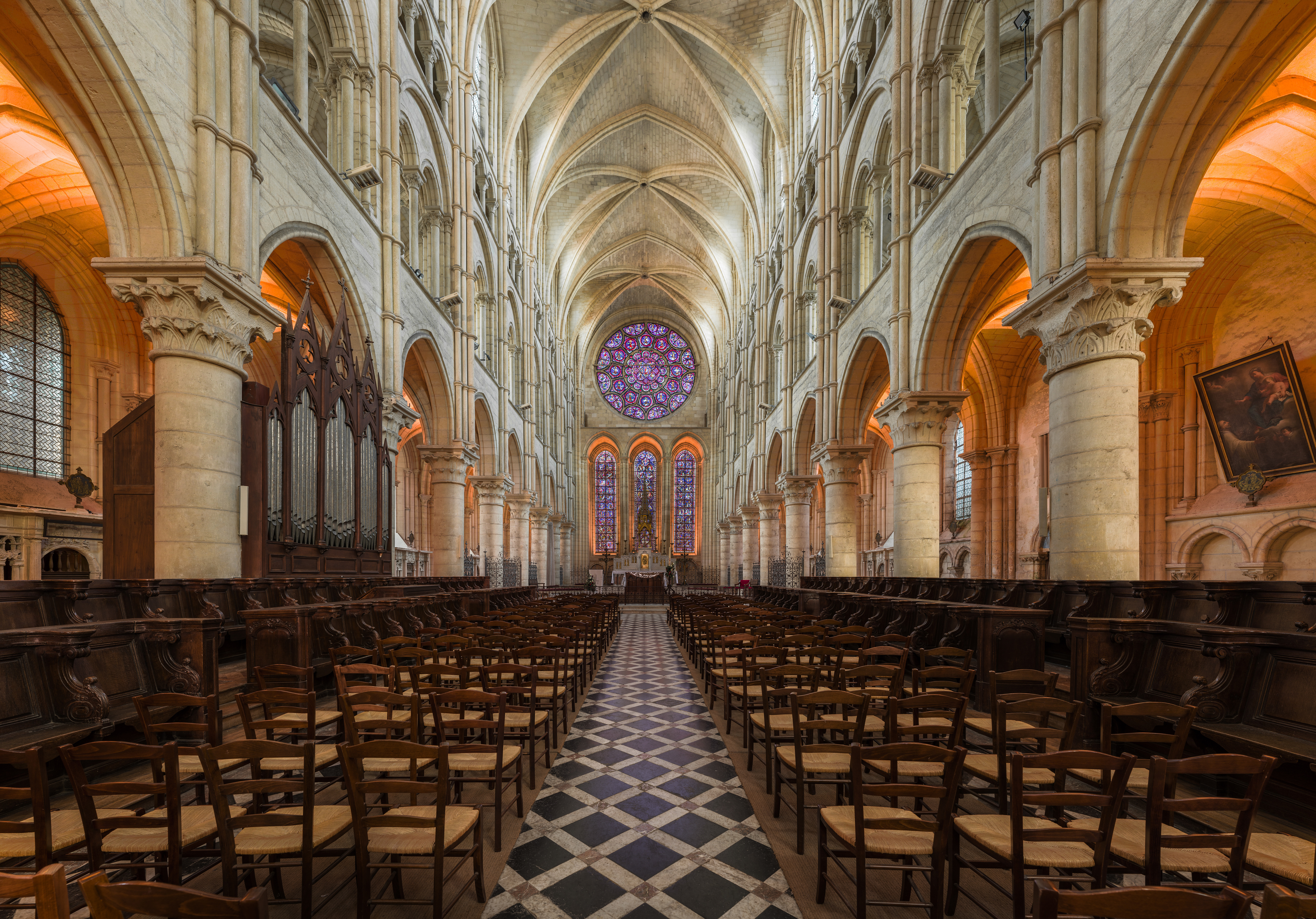 The choir of Laon Cathedral in Picardie, France.